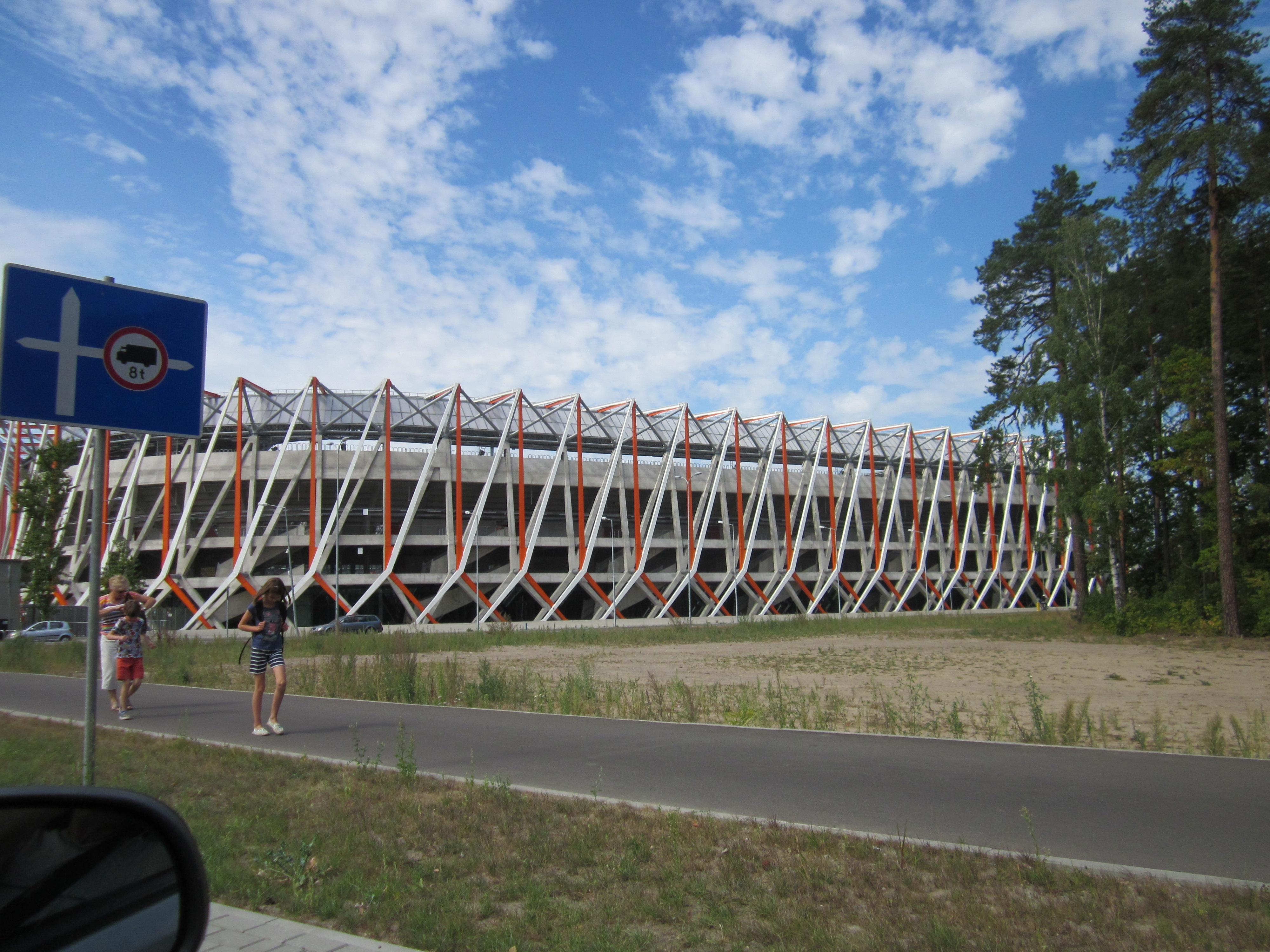 Municipal Stadium in Białystok, at Ciołkowskiego Street